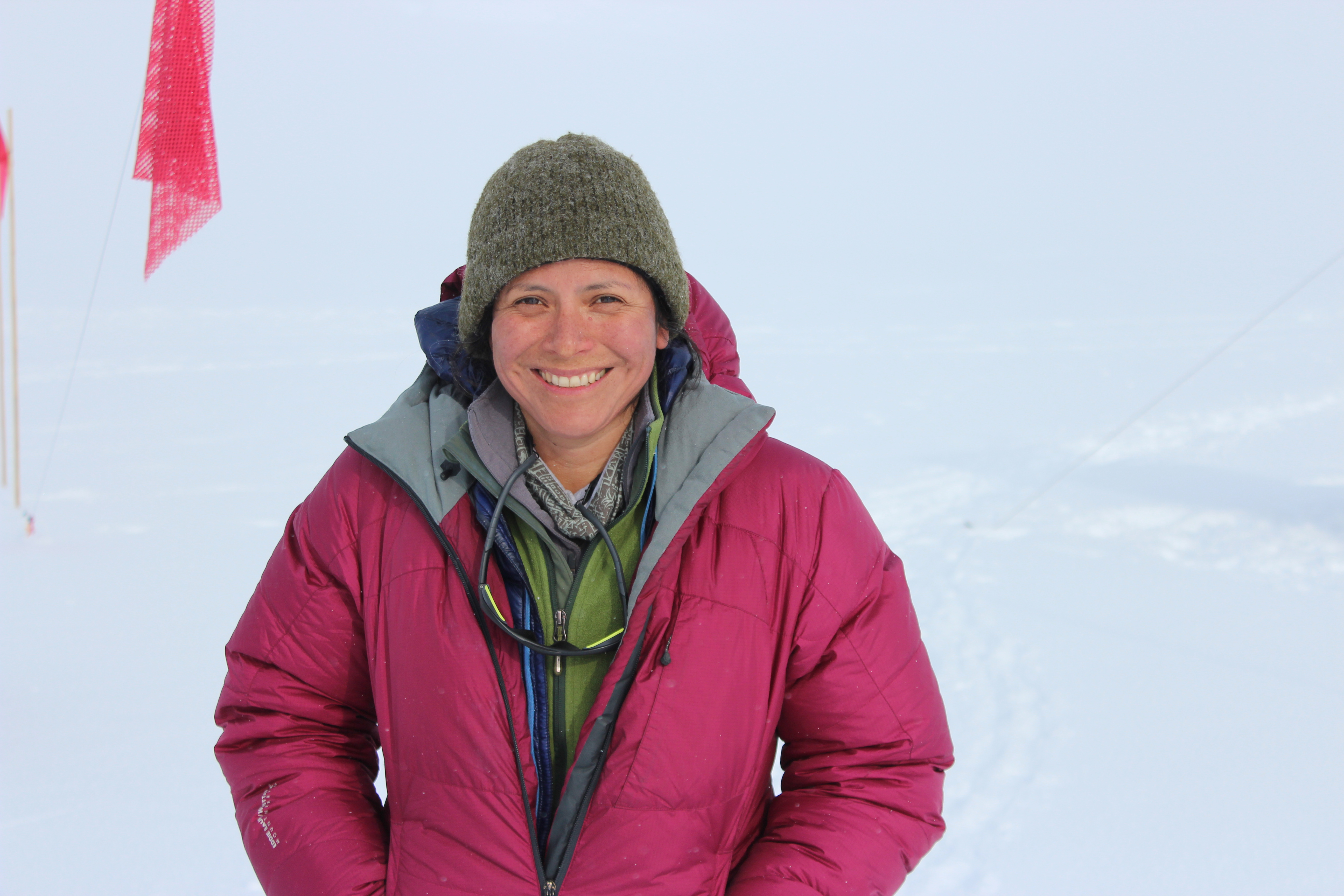 Silvia Vasquez Lavado at Union Glacier, Antarctica in January 2016 after summiting Vinson Massif.